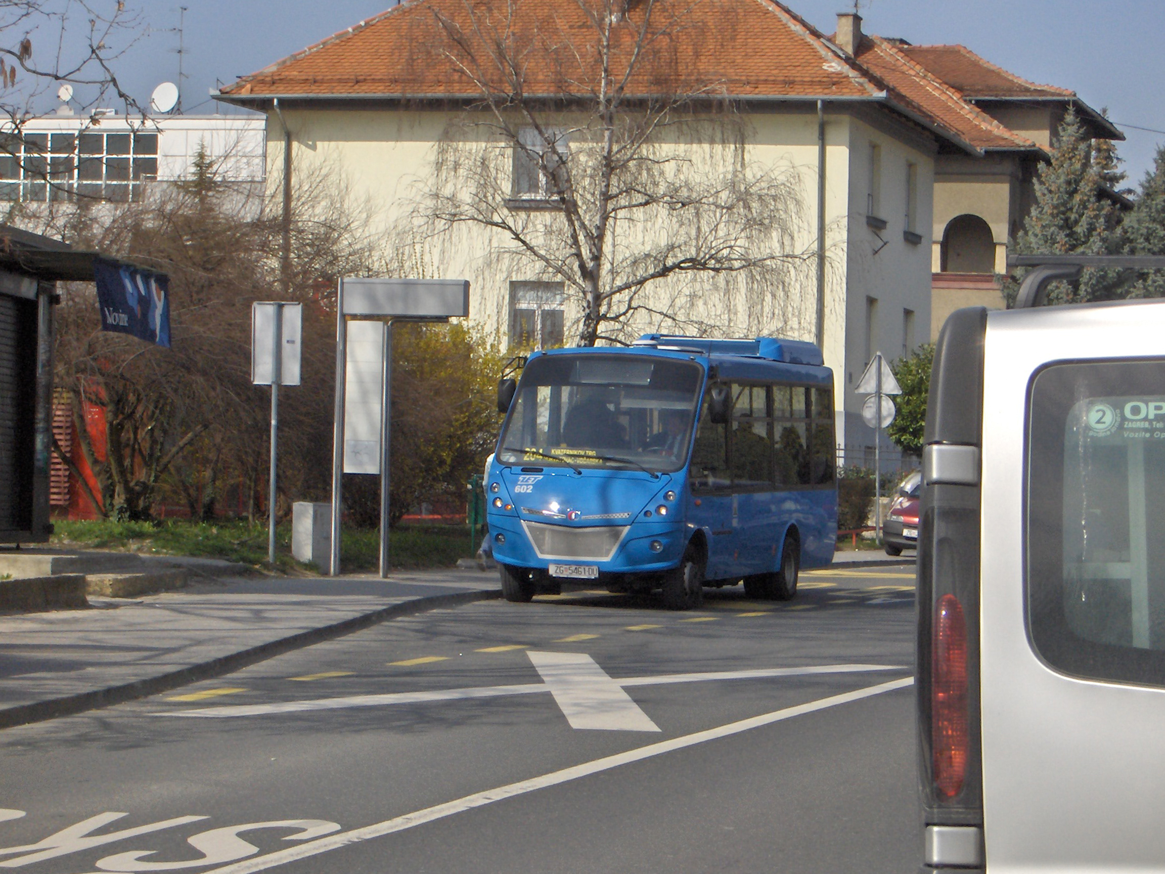 A 15-seat minibus travelling on line 204 in Šalata, a neighborhood of Zagreb, Croatia. It is operated by Zagrebački električni tramvaj (Zagreb Electric Tram). Irisbus Cacciamali Urby minibus, built 2009.